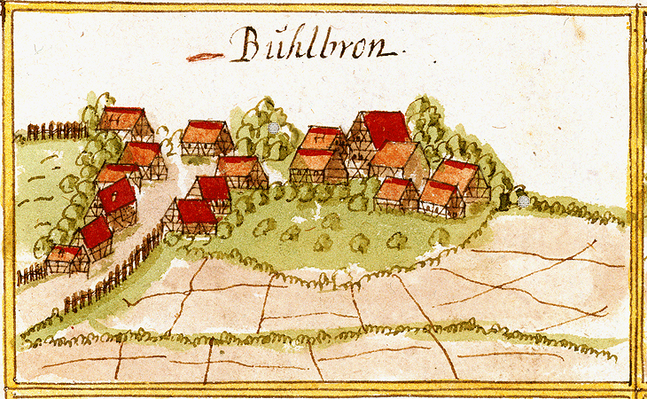 View of Buhlbronn, Schorndorf, from the forest register books created by Andreas Kieser